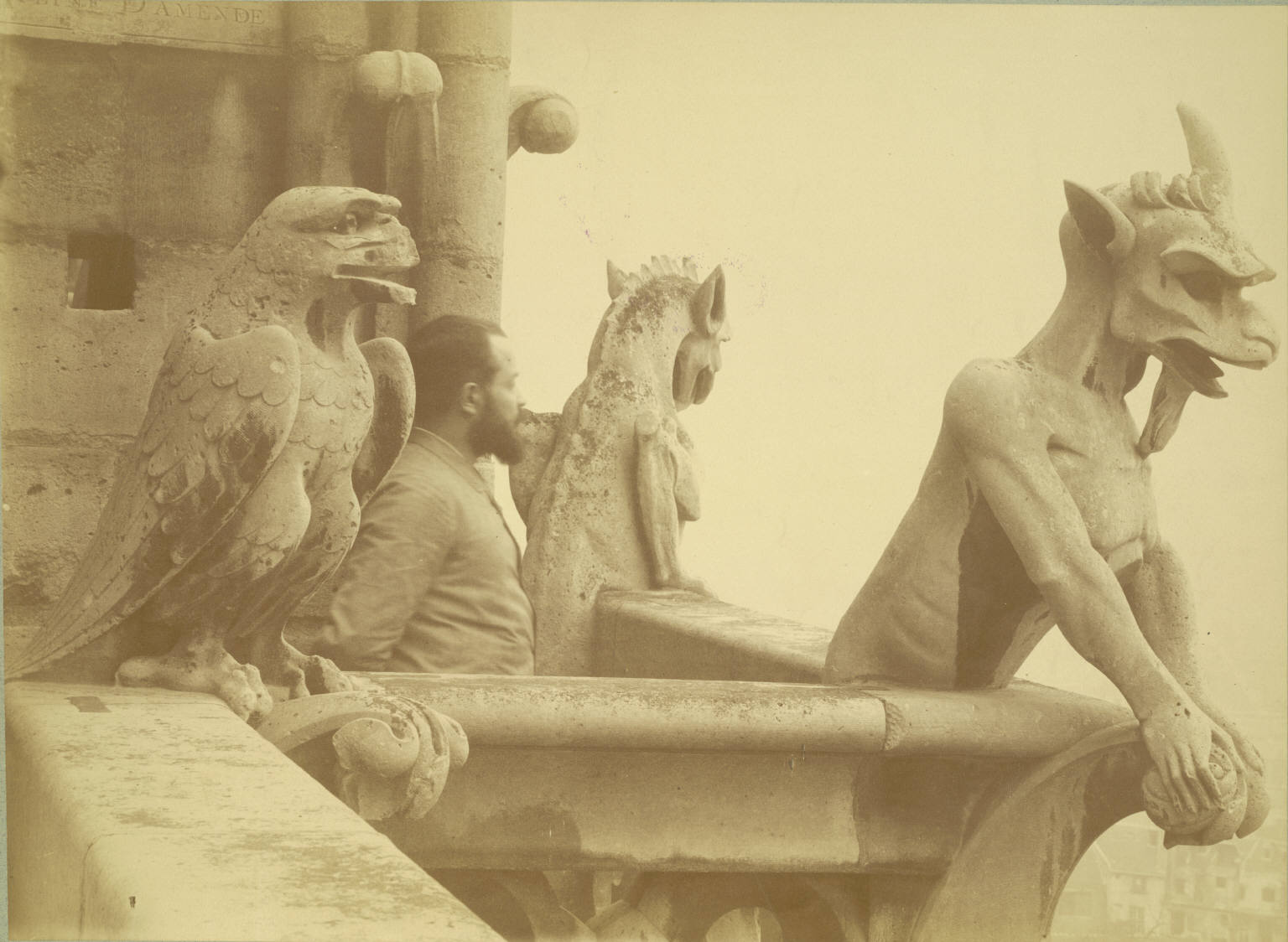 Collection: A. D. White Architectural Photographs, Cornell University Library Accession Number: 15/5/3090.00628 Title: Paris. Notre Dame Cathedral Tower. Chimeras and Man Sculpture Date: 1845-1868 Photograph date: ca. 1865-ca. 1886 Location: Europe: France; Paris Materials: albumen print Image: 10.8268 x 14.8031 in.; 27.5 x 37.6 cm Style: Gothic Revival Provenance: Gift of Andrew Dickson White Persistent URI: There are no known copyright restrictions on this image. The digital file is owned by the Cornell University Library which is making it freely available with the request that, when possible, the Library be credited as its source. We had some help with the geocoding from Web Services by Yahoo!